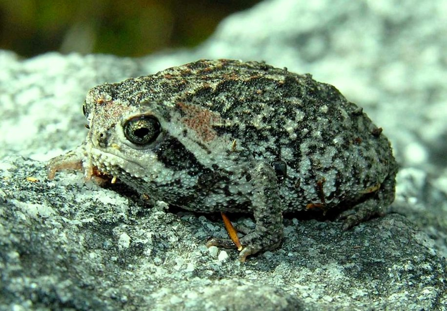 Breviceps montanus. Mountain rain frog. Cape Town.